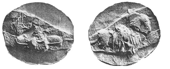 Sancha of Castile (1208)